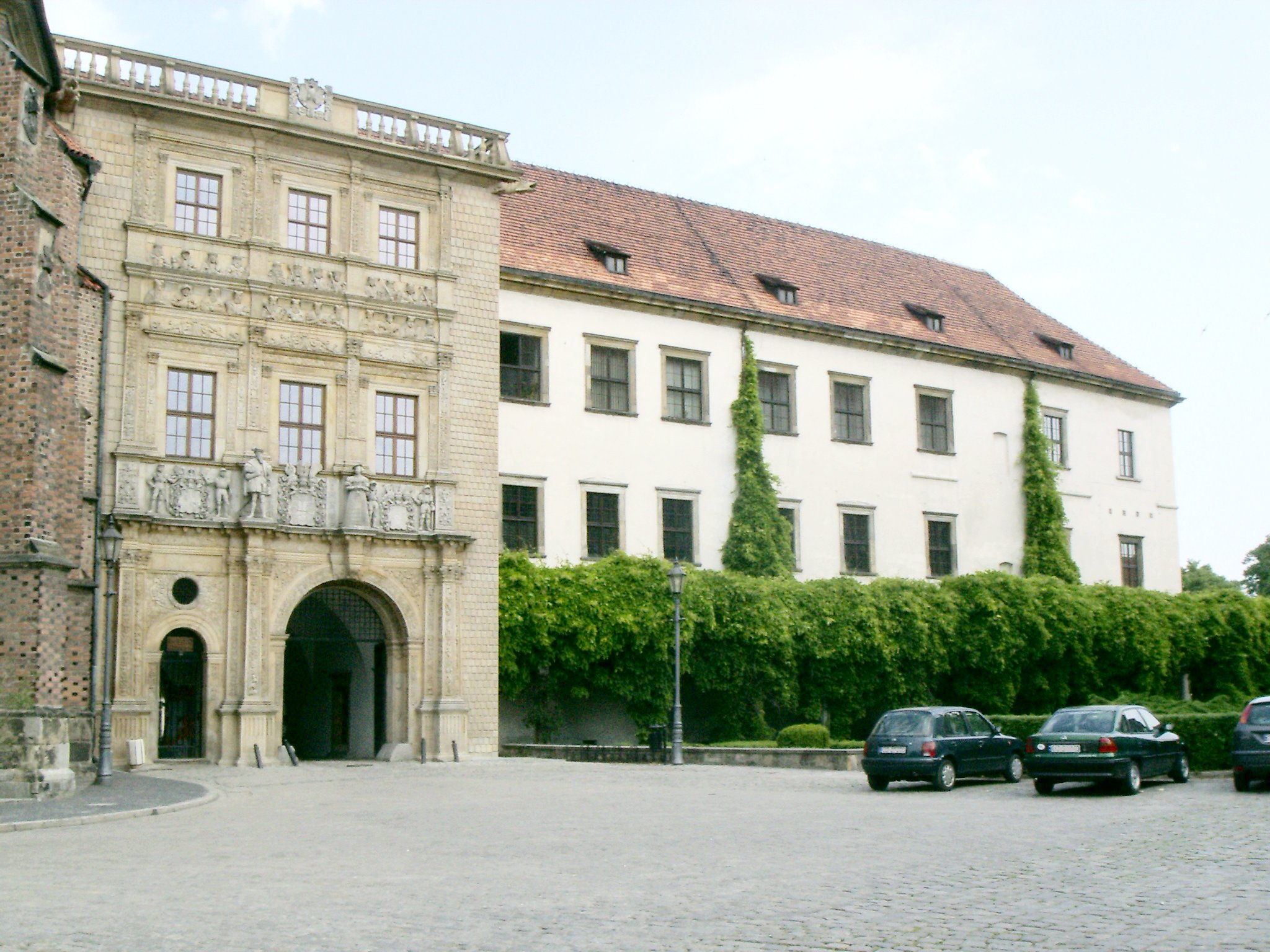 The castle gate in Brzeg (german Brieg), now Poland